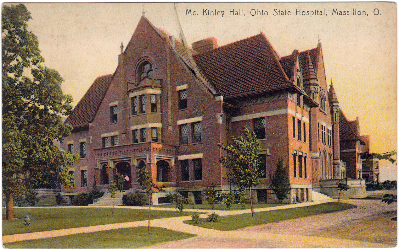 McKinley Hall, Ohio State Hospital, Massillon, Ohio (1915 Postcard)